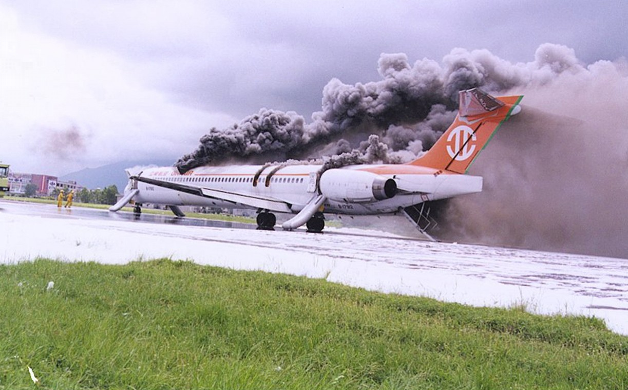 Uni Air Flight 873 landed at Hualien Airport and was rolling on Runway 21, when an explosion was heard in the front section of the passenger cabin, followed by smoke and then fire.